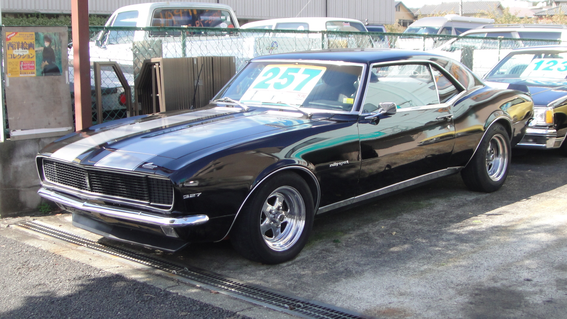 Chevrolet Camaro first Generation front